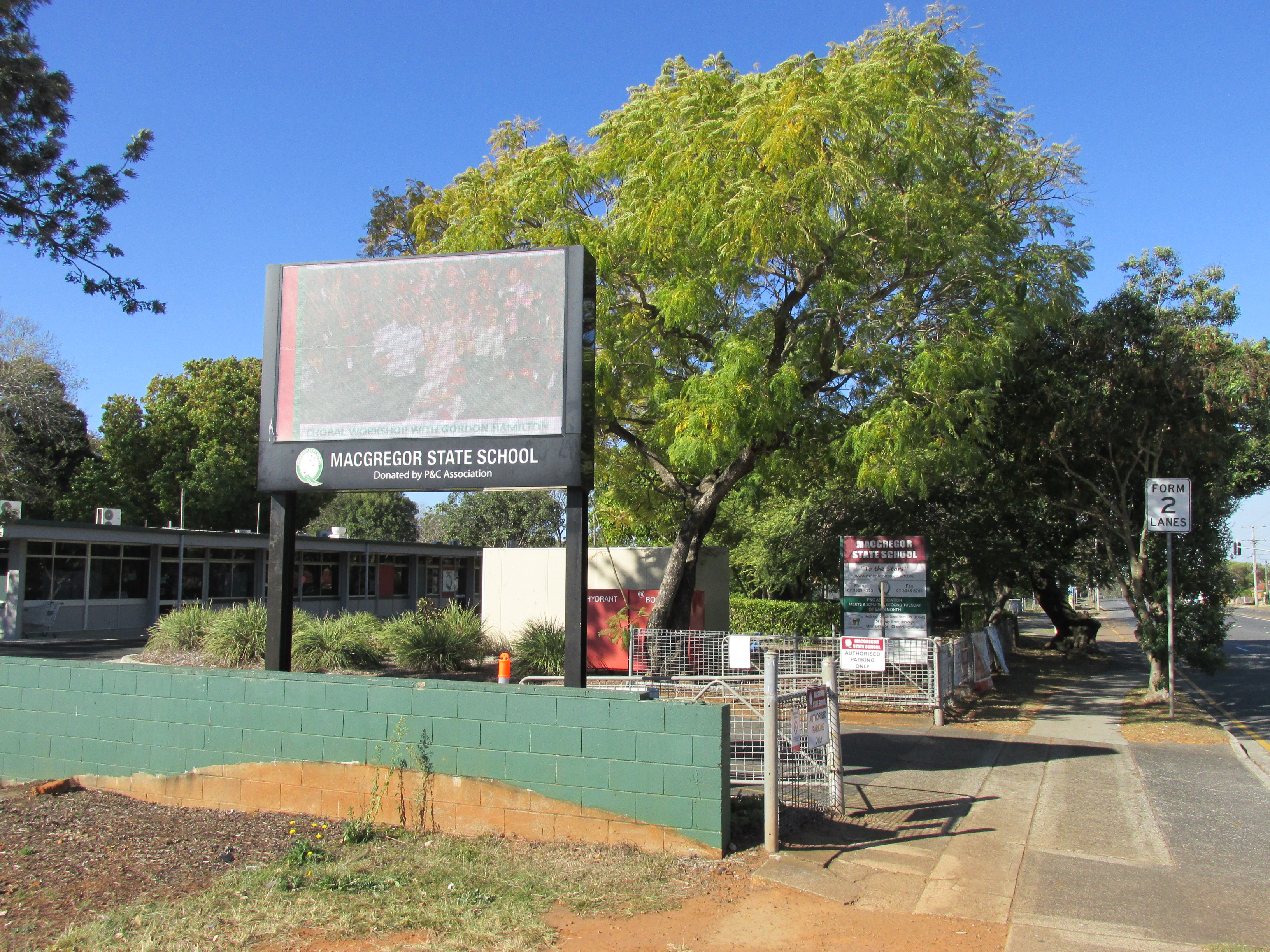 Macgregor State School front entrance in Macgregor, Queensland.